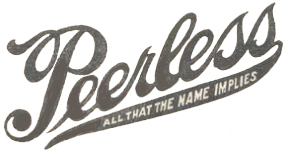 Peerless - logo - 1908